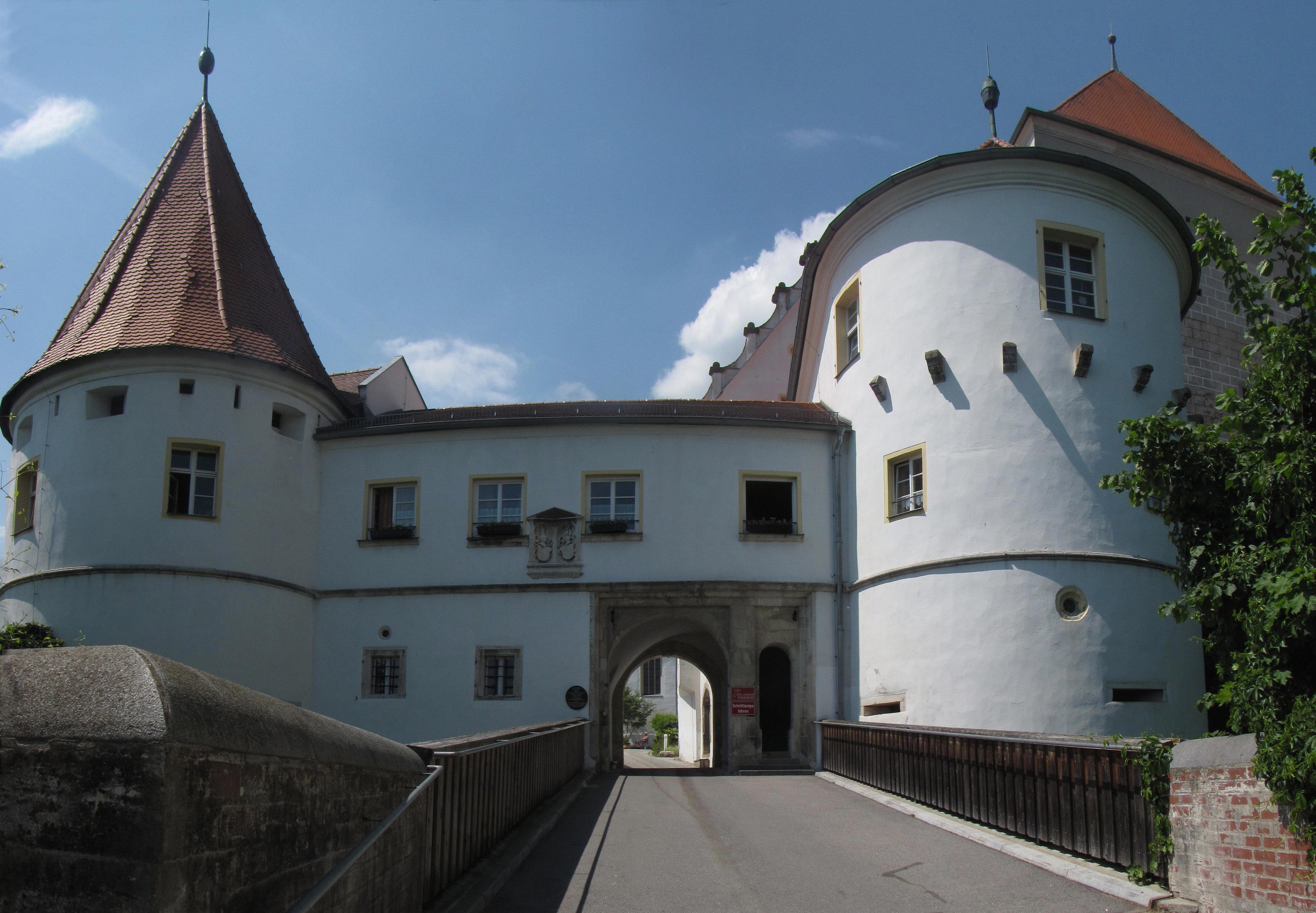 Castle Wörth an der Donau, Bavaria, Germany